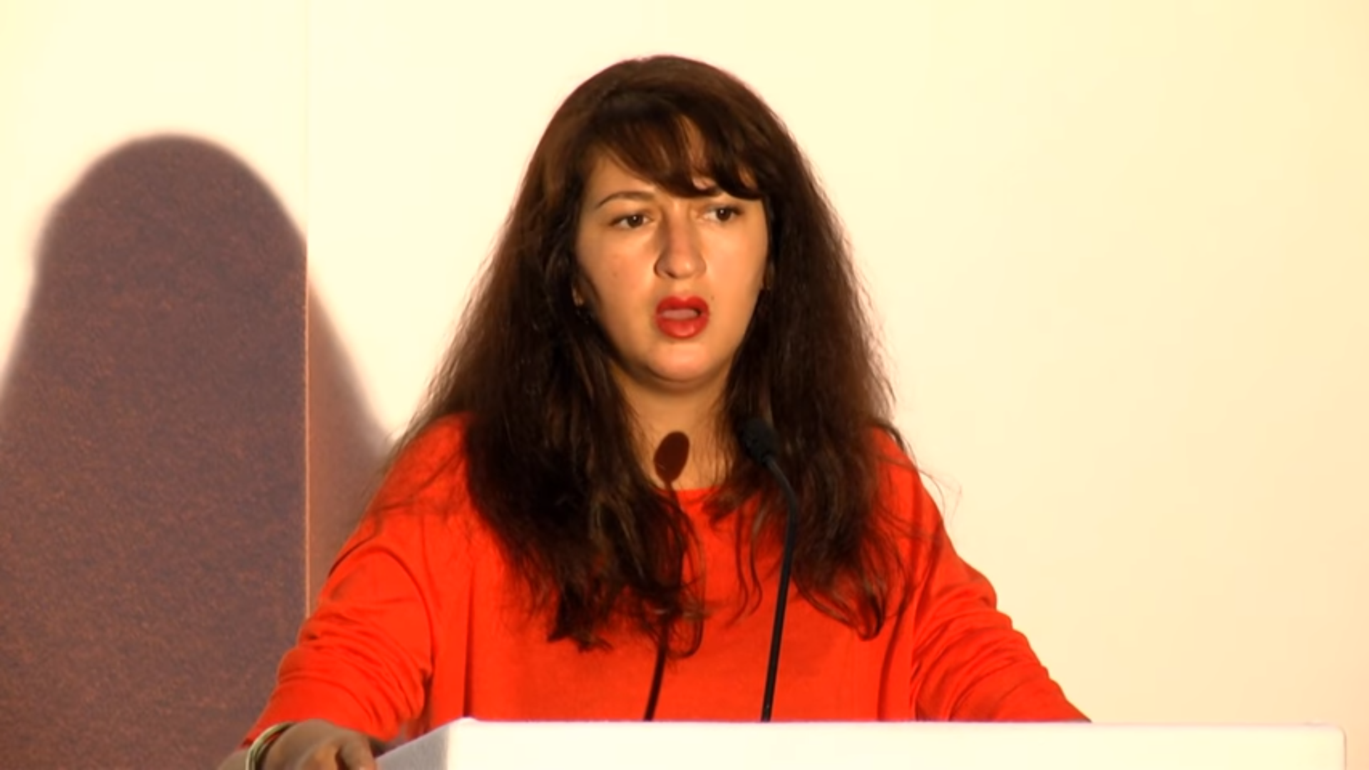 Zineb El Rhazoui speaking about "Destroying Islamic Fascism" at the International Conference on Free Expression and Conscience, London, 22-24 July 2017.